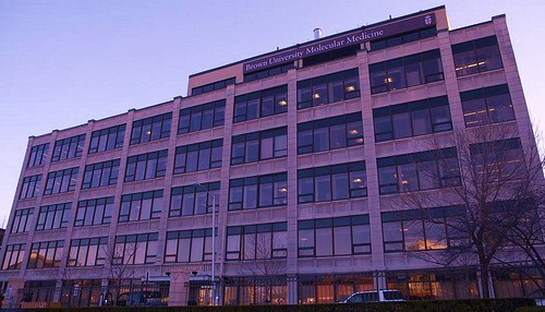 Facade of the Brown University Laboratories for Molecular Medicine on Ship Street, one of the core research facilities of the Alpert Medical School.